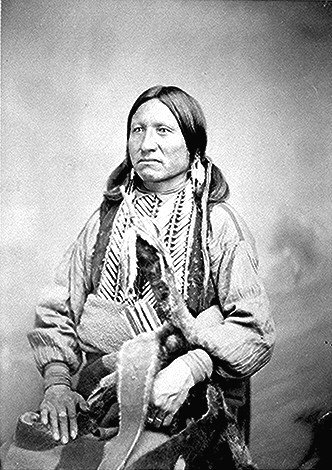 Kicking Bird (Tene'-angopte), a Kiowa chief and grandson of a Crow captive;three-quarter-length, seated. Photographed by William S. Soule, 1868-74. American Indian Select List number 103.